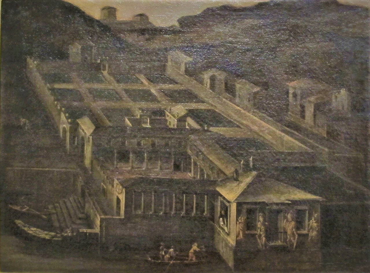 a remixed file of